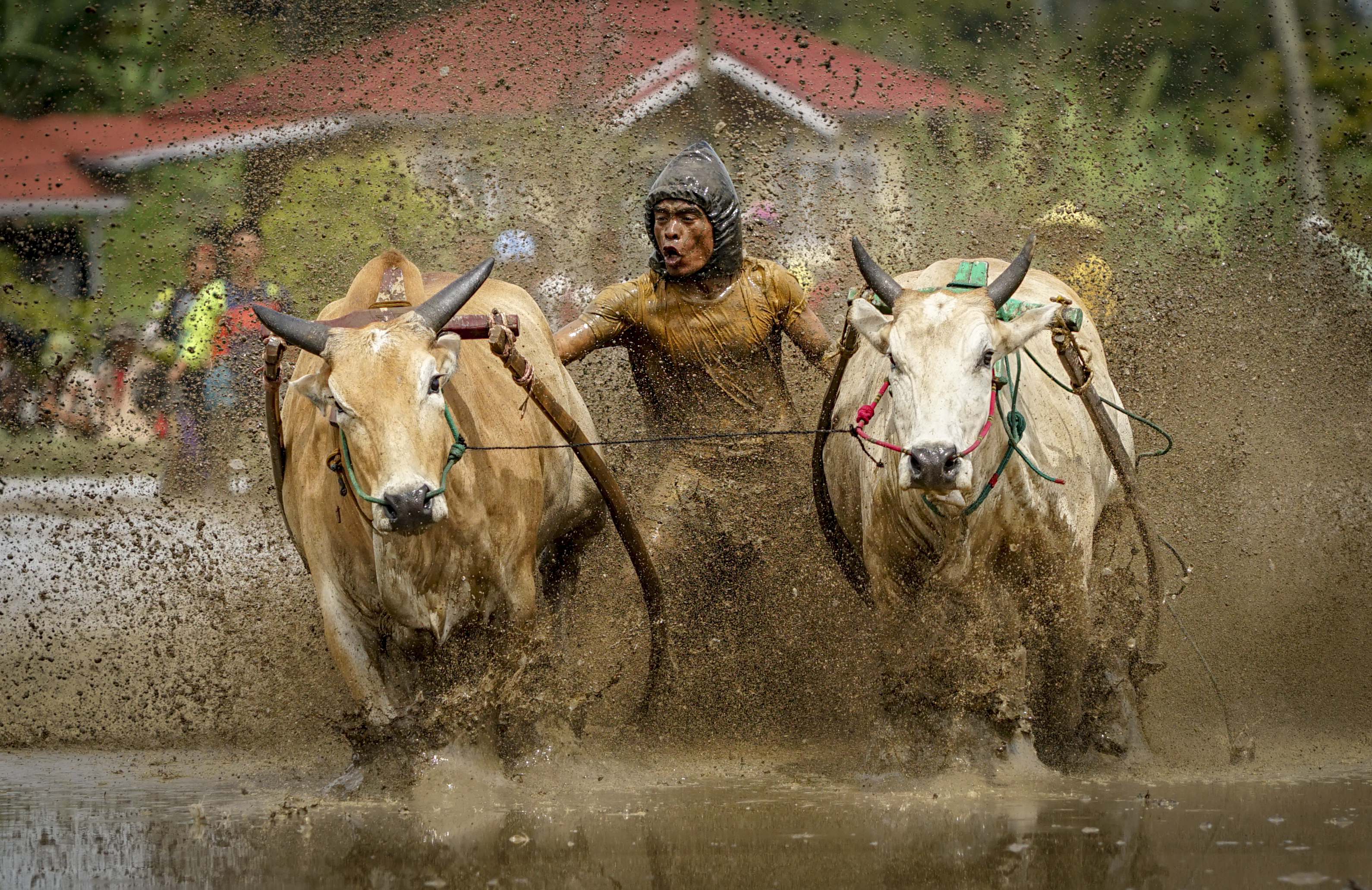 Pacu jawi (from the Minang language: "cattle race") is a traditional sports event contested in Tanah Datar District, West Sumatra, Indonesia. In this event, a pair of bulls run along a muddy paddy track with a length of 60-250 meters, while a jockey stands behind, holding both bulls.